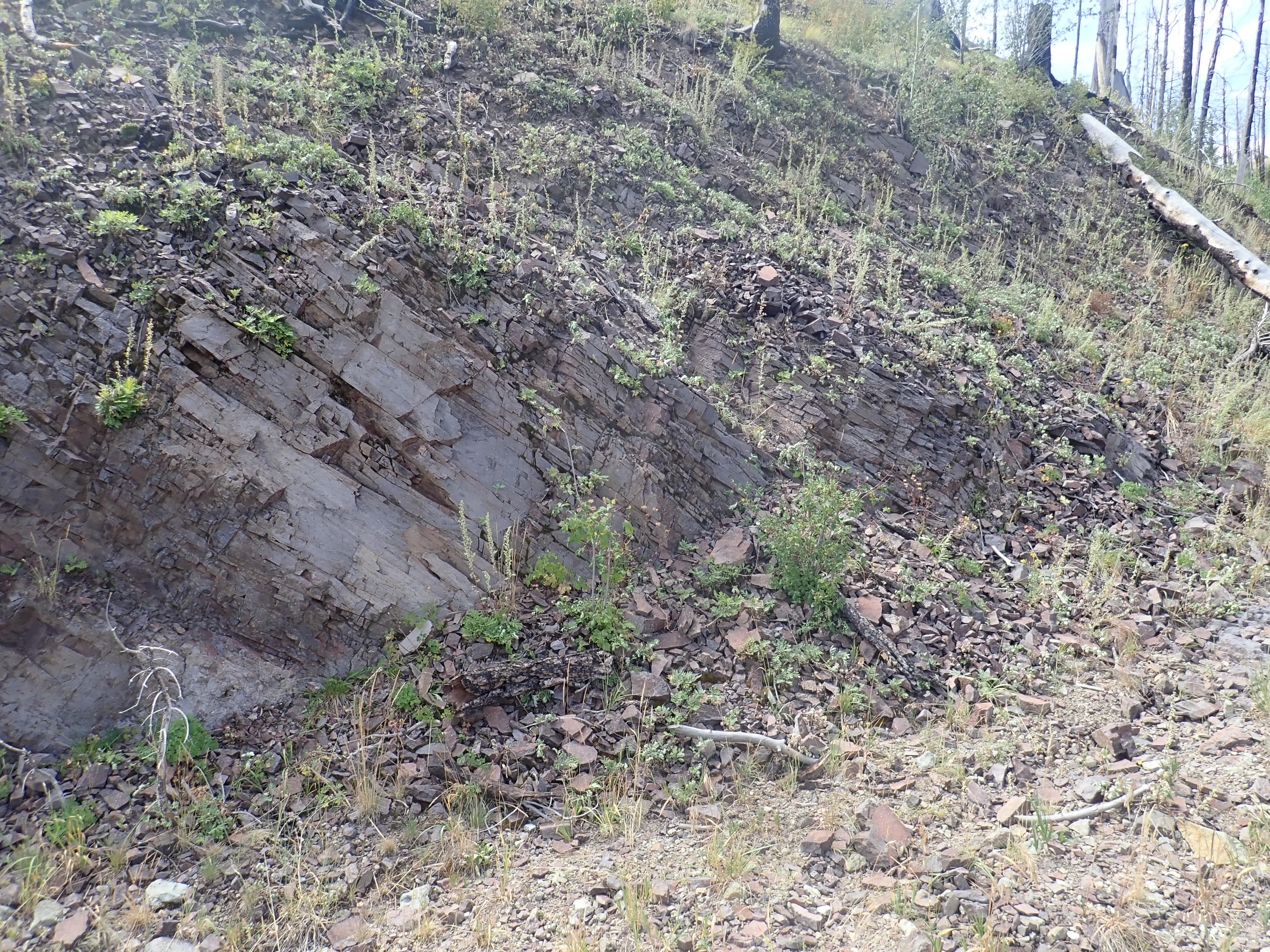 This image shows an outcrop of andesite of the Paliza Canyon Formation near the south rim of the Valles caldera, New Mexico, USA. The Paliza Canyon Formation is the largest formation of the Keres Group and its original volume was over half the volume of the pre-caldera Jemez volcanic field. The formation was erupted between 14 and 7 million years ago.